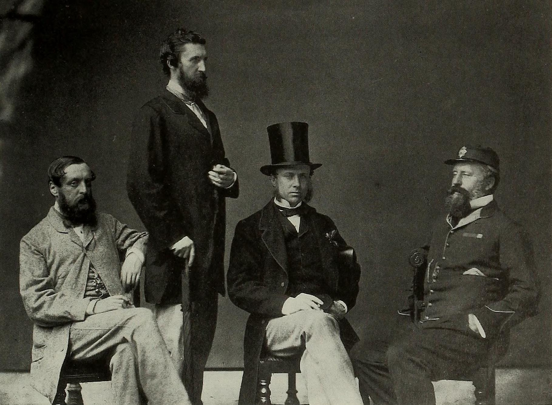 The Hong Kong Executive Council in 1860. From left to right: Colonial Secretary William Thomas Mercer, Mr Leslie of Dent and Company, Governor Hercules Robinson, and Col. Edmund Haythorne, the Captain Superintendent of Police.